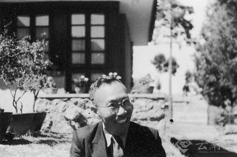 Tang Fei-fan in 1944 in Kunming, Yunnan, Republic of China.